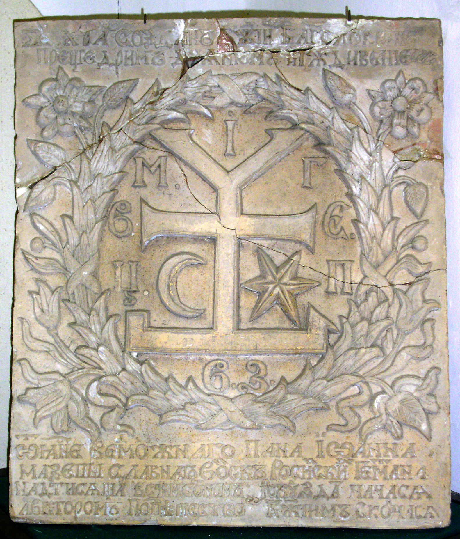 A plate with hetman Ivan Mazepa's coat of arms that once was placed on the Chernihiv college (Чернігівський колегіум). Today it's to be seen in the museum in the same building.